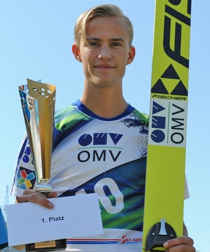 Daniel Andre Tande